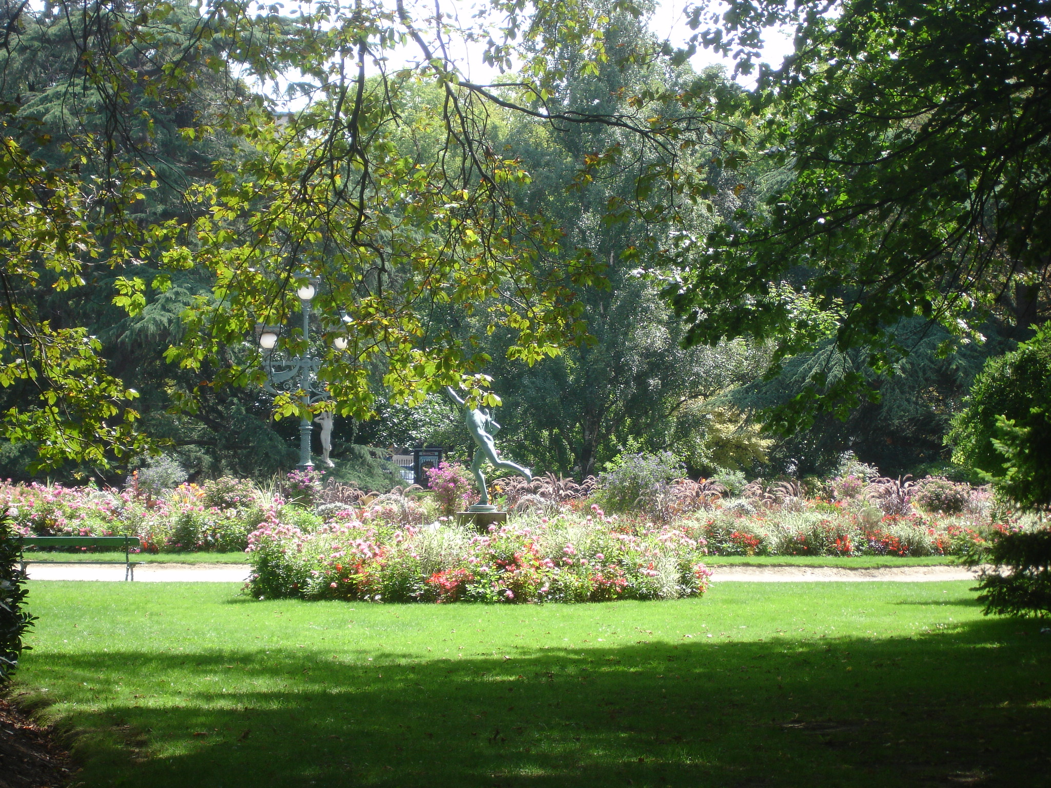 France, Haute-Garonne (31), Toulouse, public park: Grand Rond